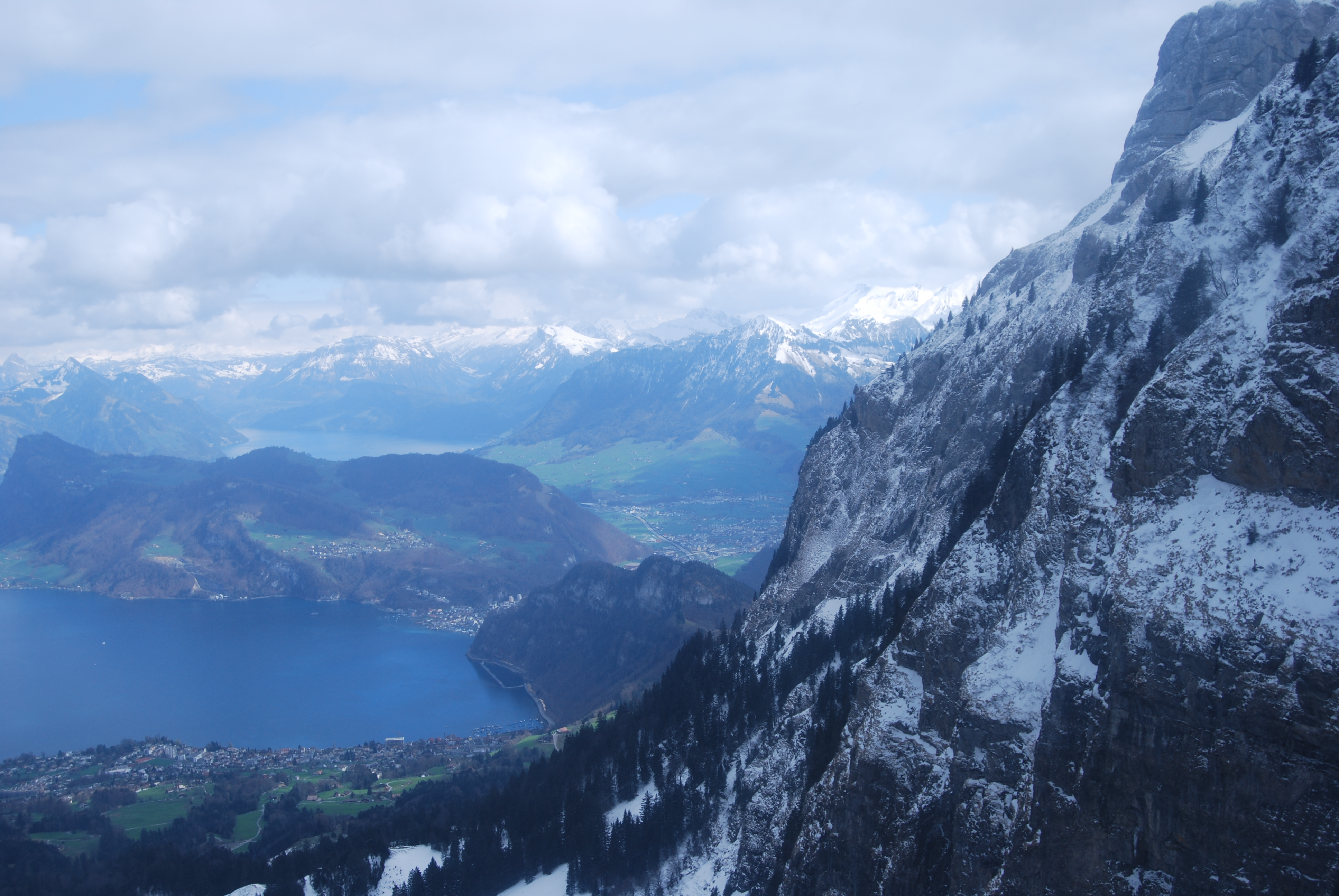 View to the Lake of Lucerne and Bürgenstock from Pilatus, Switzerland: At left in front Hergiswil, in the middle at the border of the lake Stansstad and behind it Stans and Buochs.